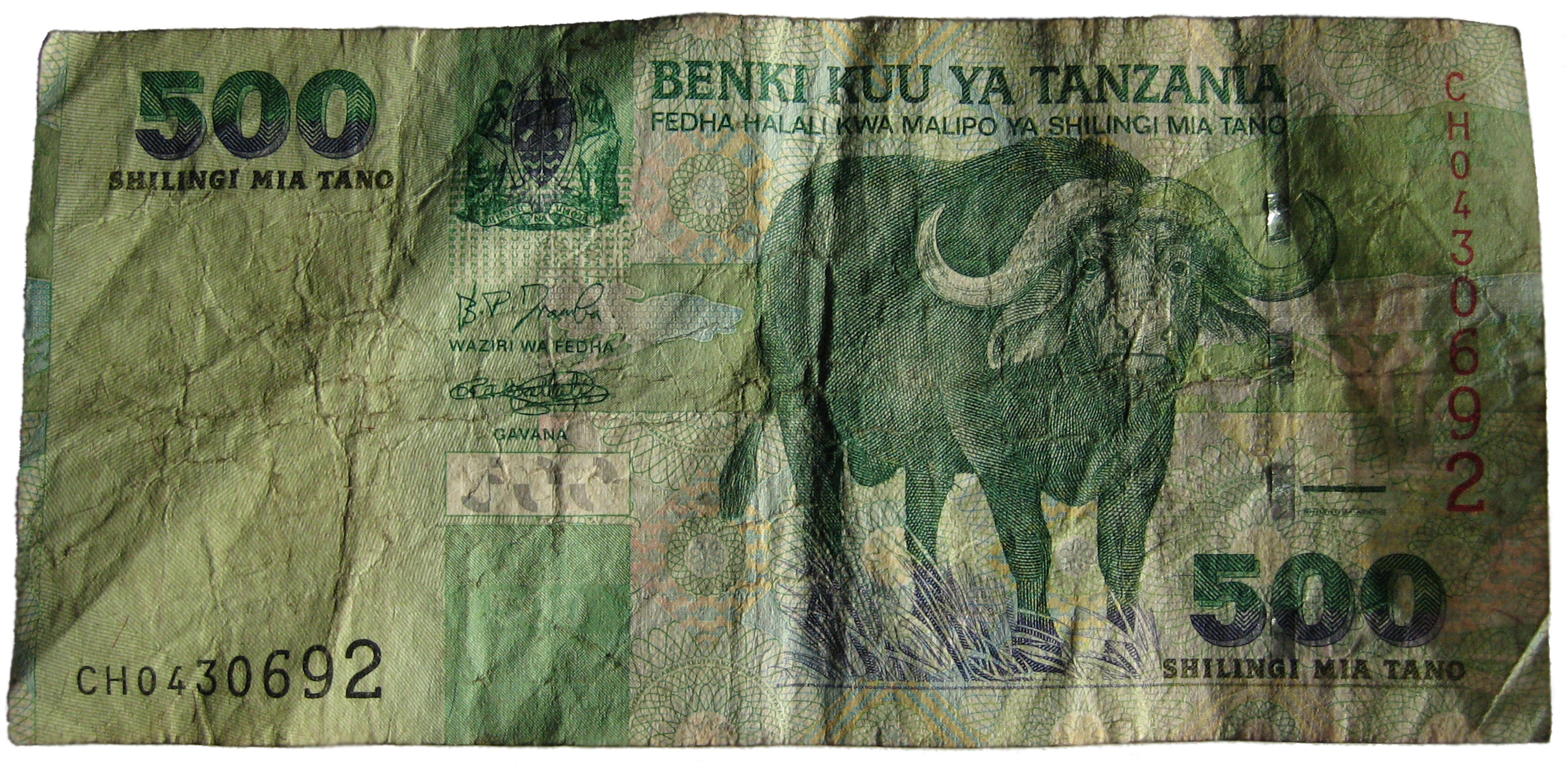 500 Tanzanian shillings note, front, displaying a buffalo.